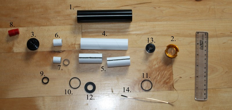 Photo shows the components of a commercially produced G64-10W hobby rocket motor made by Aerotech Consumer Aerospace. 1. Motor Casing 2. Aft Closure 3. Forward Closure 4. Propellant Liner 5. Propellant Grains (C-Slot Geometry) 6. Delay Insulator 7. Delay Grain and Delay Spacer 8. Black Powder Ejection Charge 9. Delay O-Ring 10 & 11. Forward and Aft O-Rings 12. Forward Insulator 13. Nozzle 14. Electric Igniter